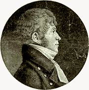 William Short (1759-1849), american diplomat